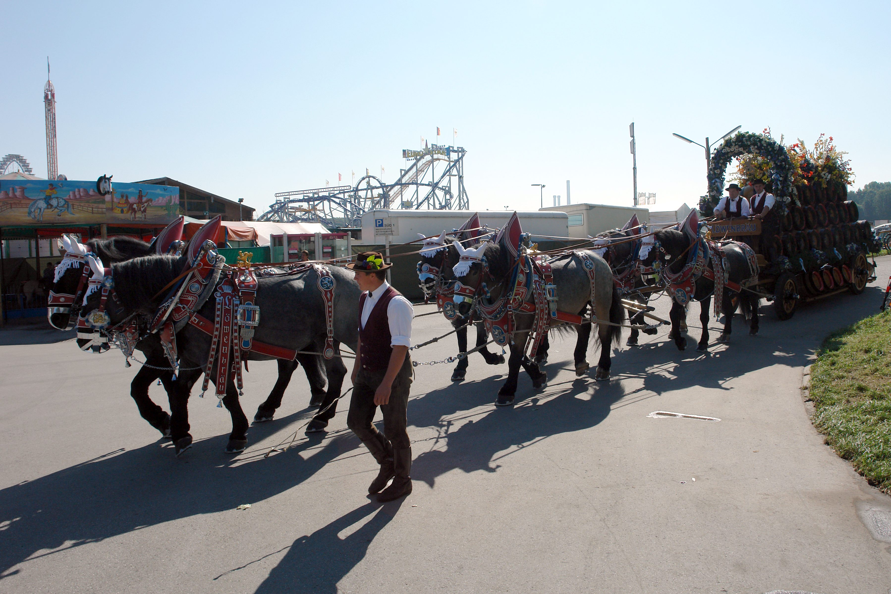 A brewery-carriage with horses in decorated harness on the Oktoberfest.